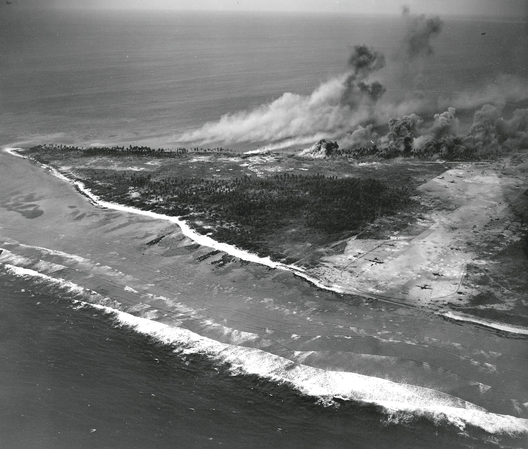 Aerial view of U.S. Navy strikes on Engebi island on 16 February 1944. The photo was taken by an aircraft from the aircraft carrier USS Saratoga (CV-3).